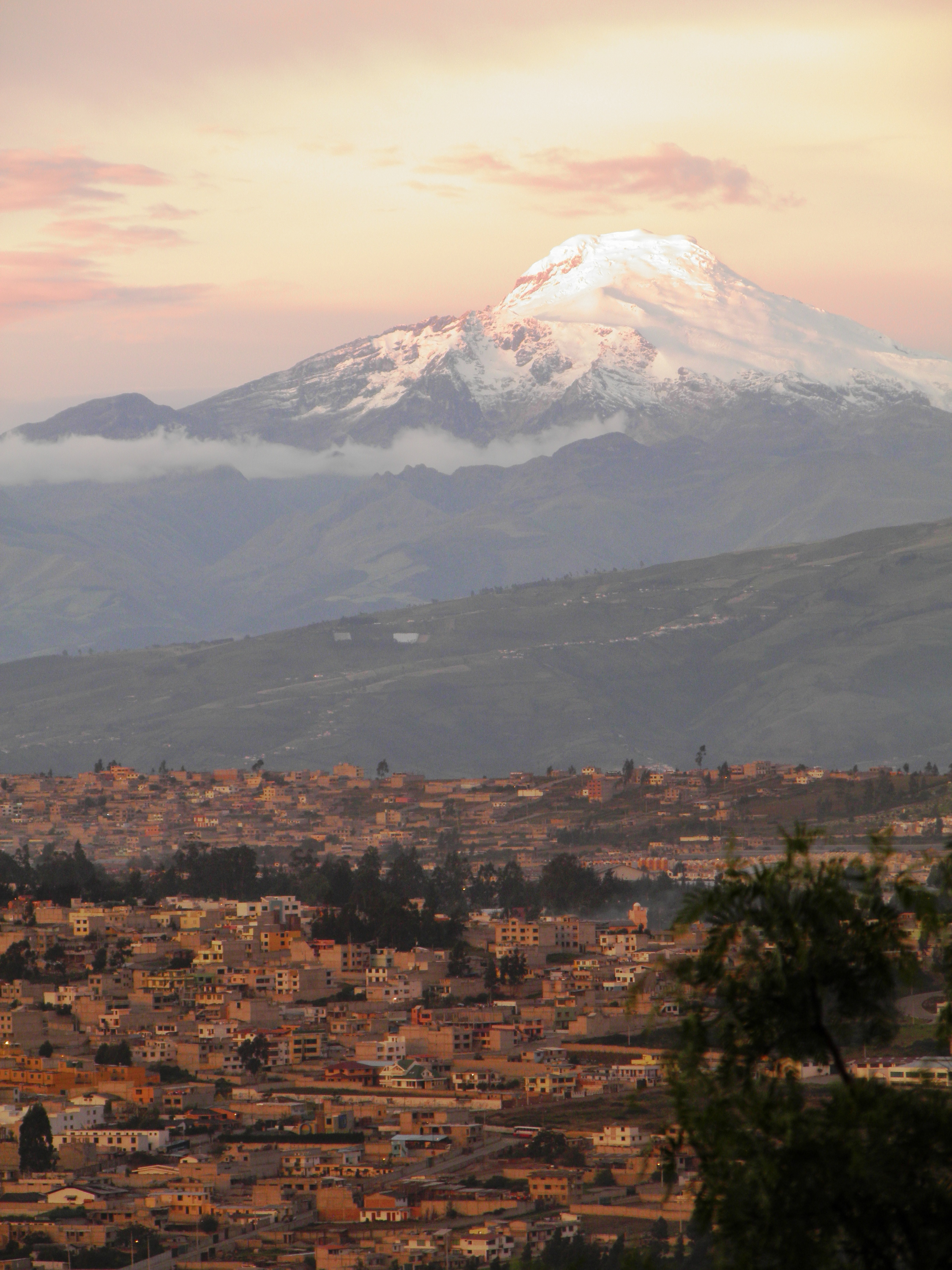 Cayambe vocano to the north of Quito and part of the northern outskirts of the city on a June 2010 afternoon-El volcán Cayambe al norte de Quito con parte de los suburbios al norte de la ciudad en un atradecer de junio 2010